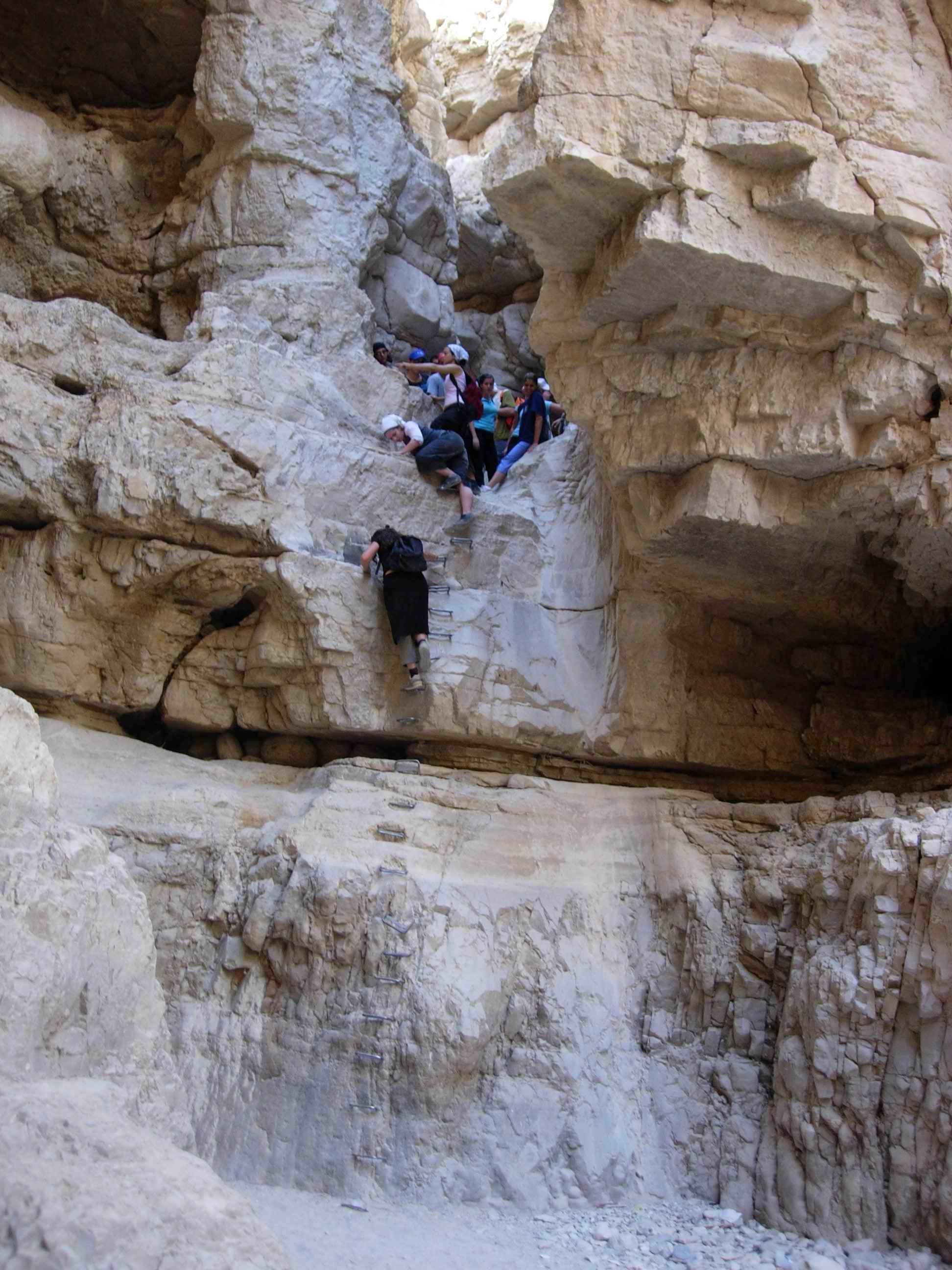 Ladders in Wadi Og